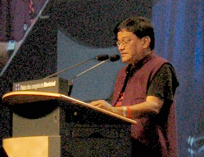 Indian LGBT rights activist and journalist Ashok Row Kavi addresses the International Conference on LGBT Human Rights in Montreal, 28 July 2006